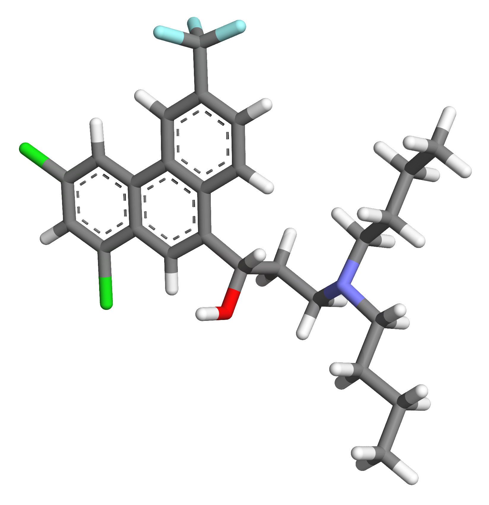 halofantrine - 3D - Stick Model Data from PubChem entry CID 37393 Black: Carbon, C White: Hydrogen, H Red: Oxygen, O Blue: Nitrogen, N Green: Chlorine, Cl Light Blue: Fluorine, F